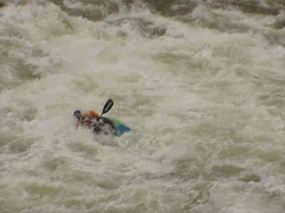 Photo of a kayaker rolling over in the Lochsa River. The kayaker used an Eskimo Roll technique to right themself.